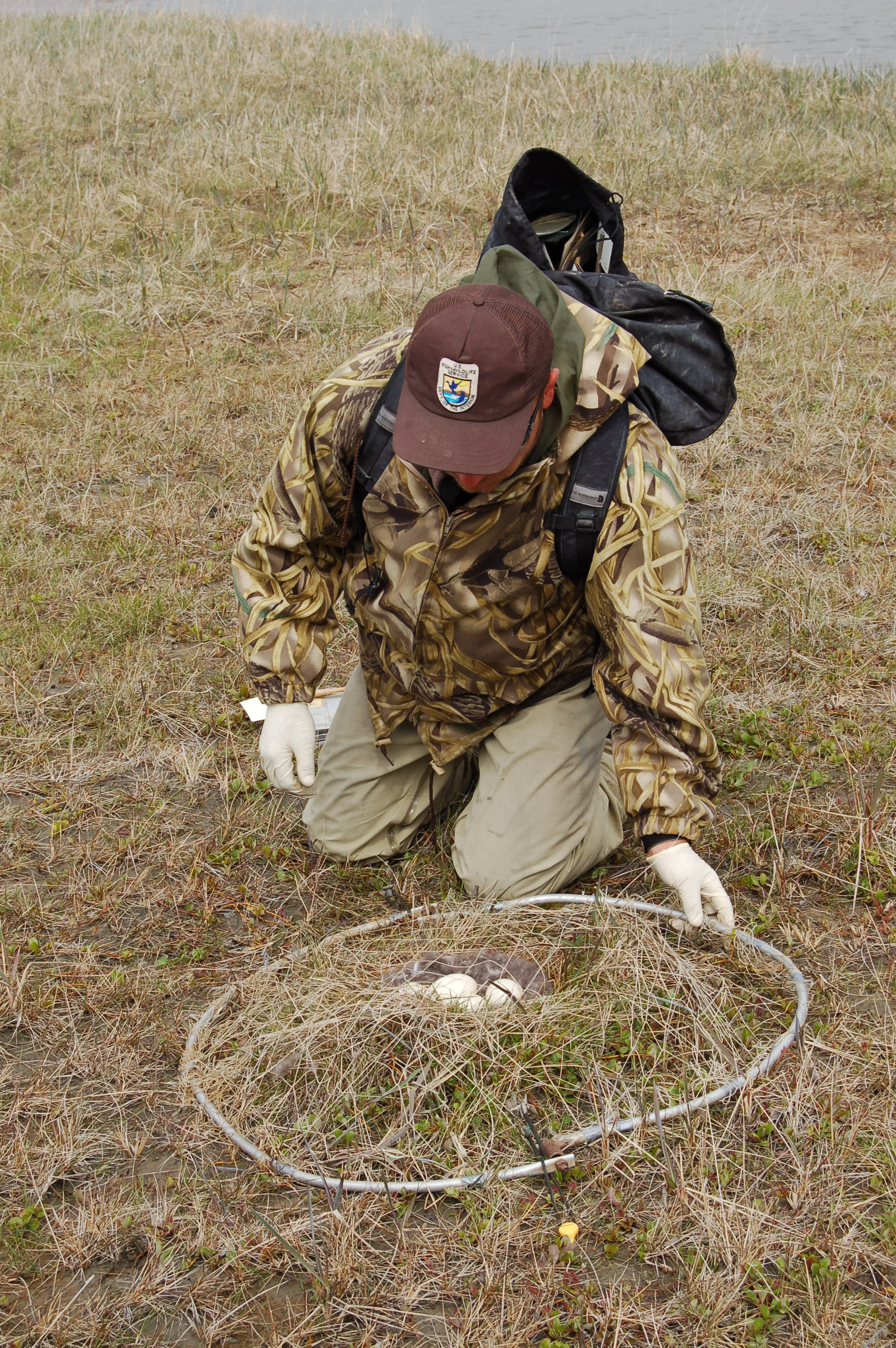 Avian Influenza Sampling Project 2006. Brant capture at Tutakoke Bird Camp, Coast of the Bering Sea just south of Hooper Bay, Alaska, near Chevak, Alaska. Image taken between June 14 - June 20, 2006. Becker, Don, USGS EROS Source DI-AI-0191